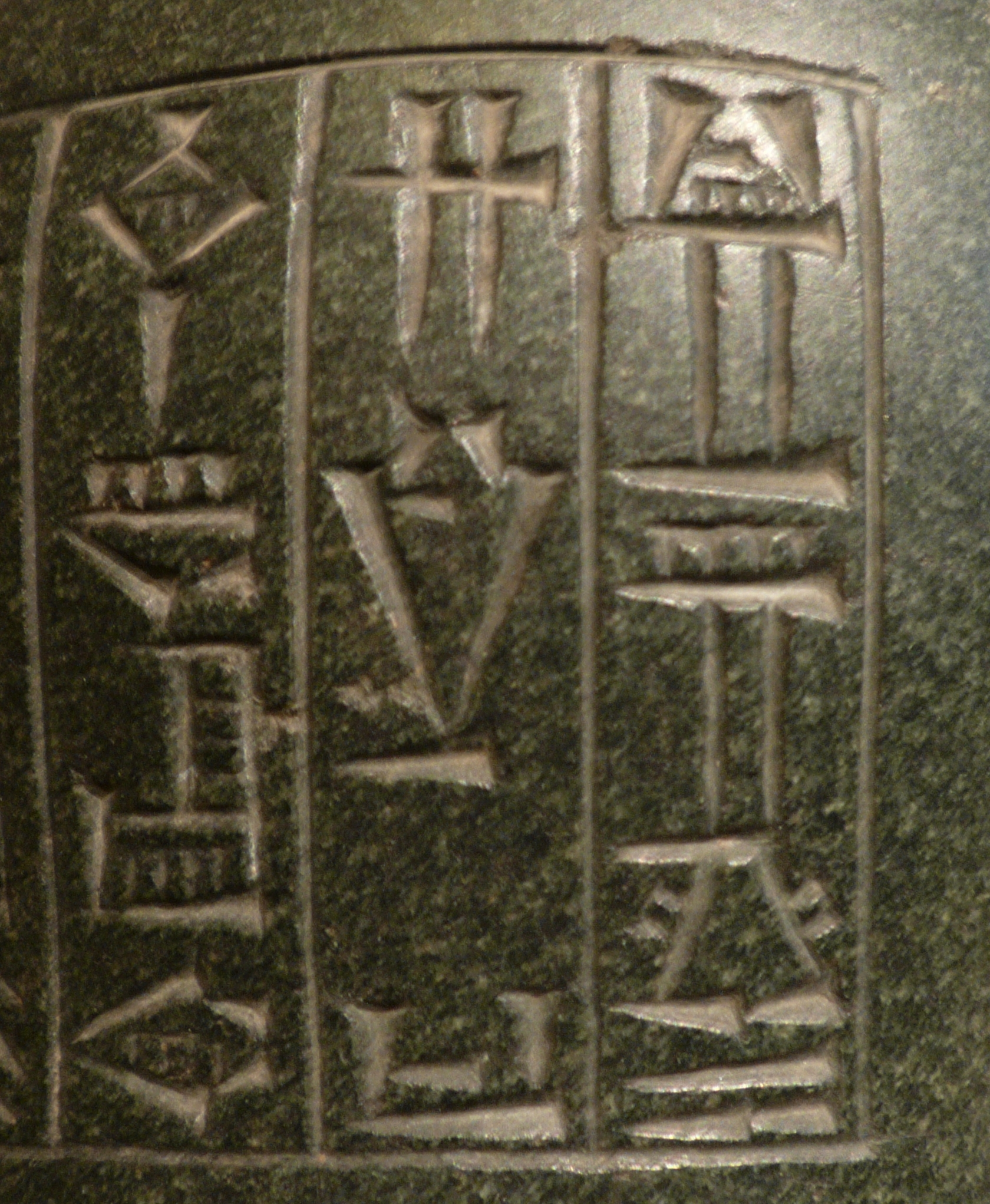 Name of the Sumerian Ruler Gudea in cuneiform characters, on the so-called statue A in Louvre. Transcription : (1) GÙ.DÉ.A (2) ENSÍ (signs PA-TE-SI) (3) LAGAŠ (signs ŠIR-BUR-LAKI). Translation : Gudea, ensi (= prince, governor, vicar) (of) Lagash.